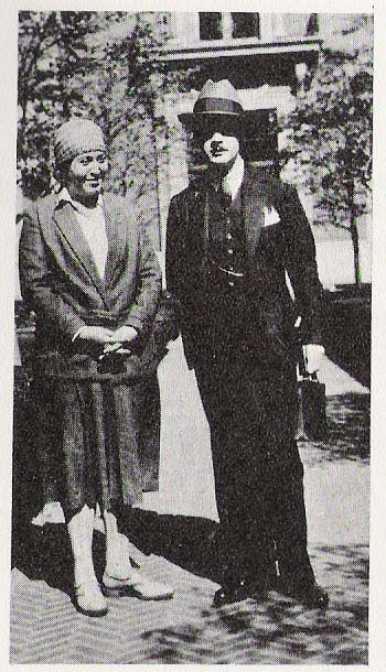 Picture of Santiago Martinez with Gabriela Mistral